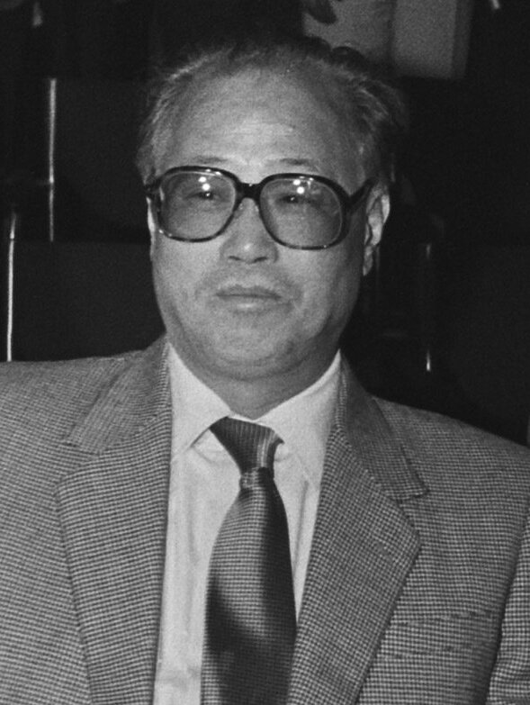 President Reagan walking with Premier Zhao Ziyang of the Peoples Republic of China during his visit to the White House. 1/10/84.